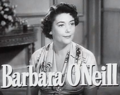 Barbara O'Neil (aka Barbara O'Neill) in Angel Face - trailer (cropped screenshot)